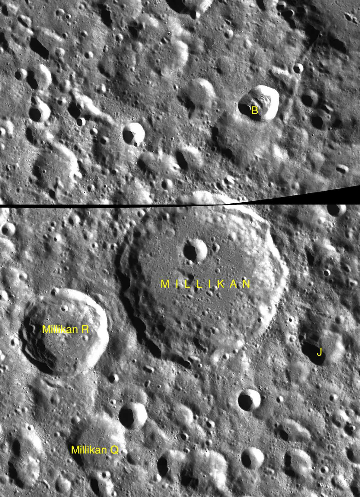 Parts of the charts LAC-16, LAC-30 used for the presentation